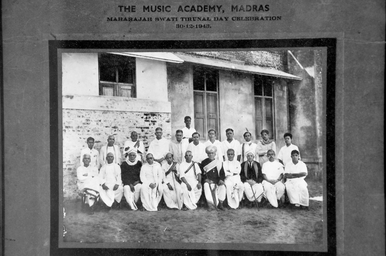 Madras Music Academy Photo 1943: SITTING LEFT TO RIGHT (2rd from Left): Valadi Krishna Iyer, T L Venkatrama Iyer, Semmangudi Srinivasa Iyer, Palladam Sanjeeva Rao, Ariyakkudi Ramanuja Iyengar, Harikesanallur Muthiah Bagavathar, Musiri Subramania Iyer, K V Krishnaswami Iyer, TV Subba Rao and Palghat Mani Iyer. STANDING L to R: (4th from Left)G N Balasubramaniam, C V. Venkatanarasimhan, Alathur Subbaiyyer, Palani Subramania Pillai and Mayavaram Govindaraja Pillai...(2nd from Right) Thanjavur Ramadas Rao